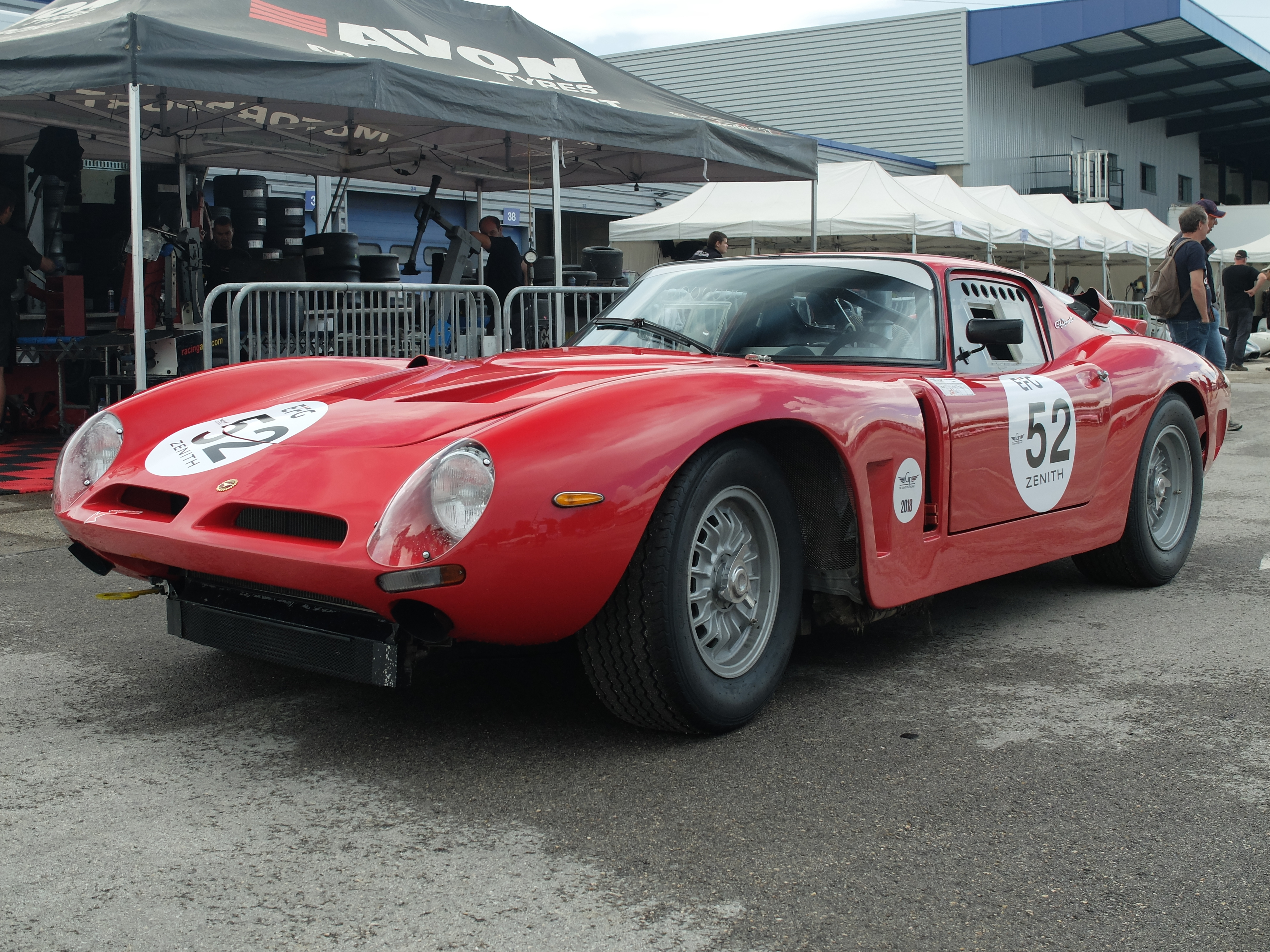 1965 Bizzarrini 5300 GT America in Dijon-Prenois during the 2018 Grand Prix de l’Âge d’Or